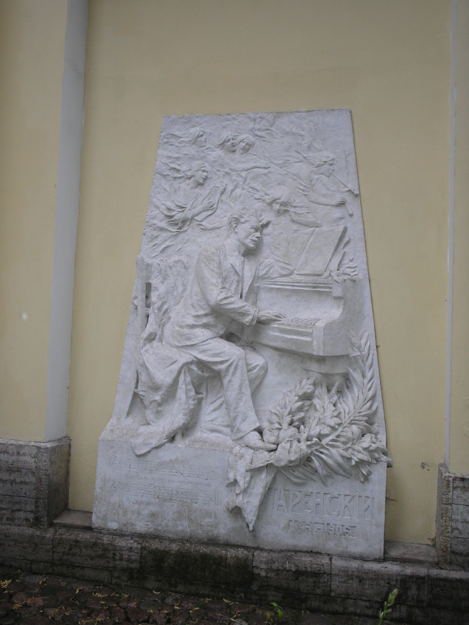 Tomb of A. S. Arensky